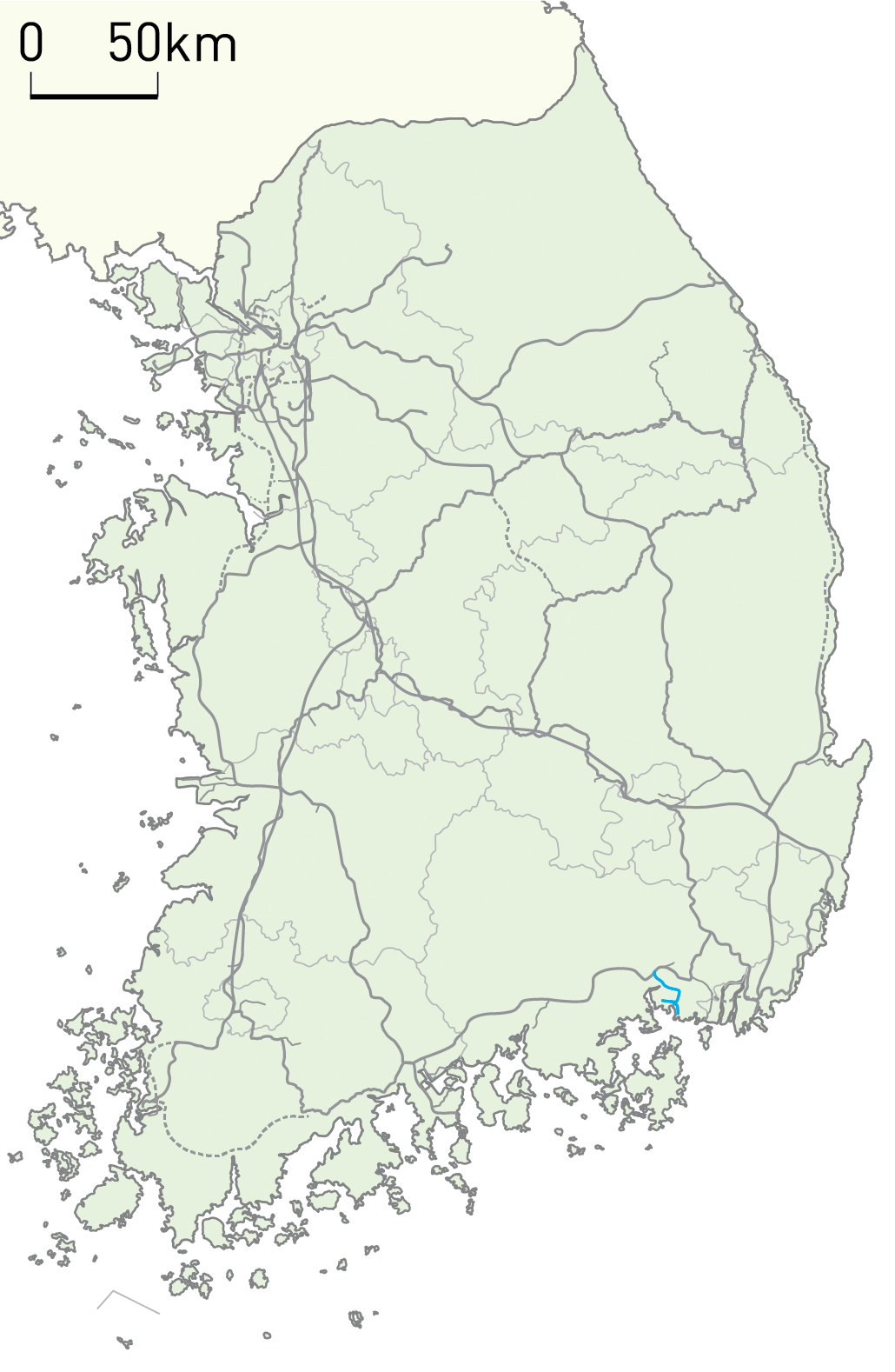 Korail Jinhae Line Routemap